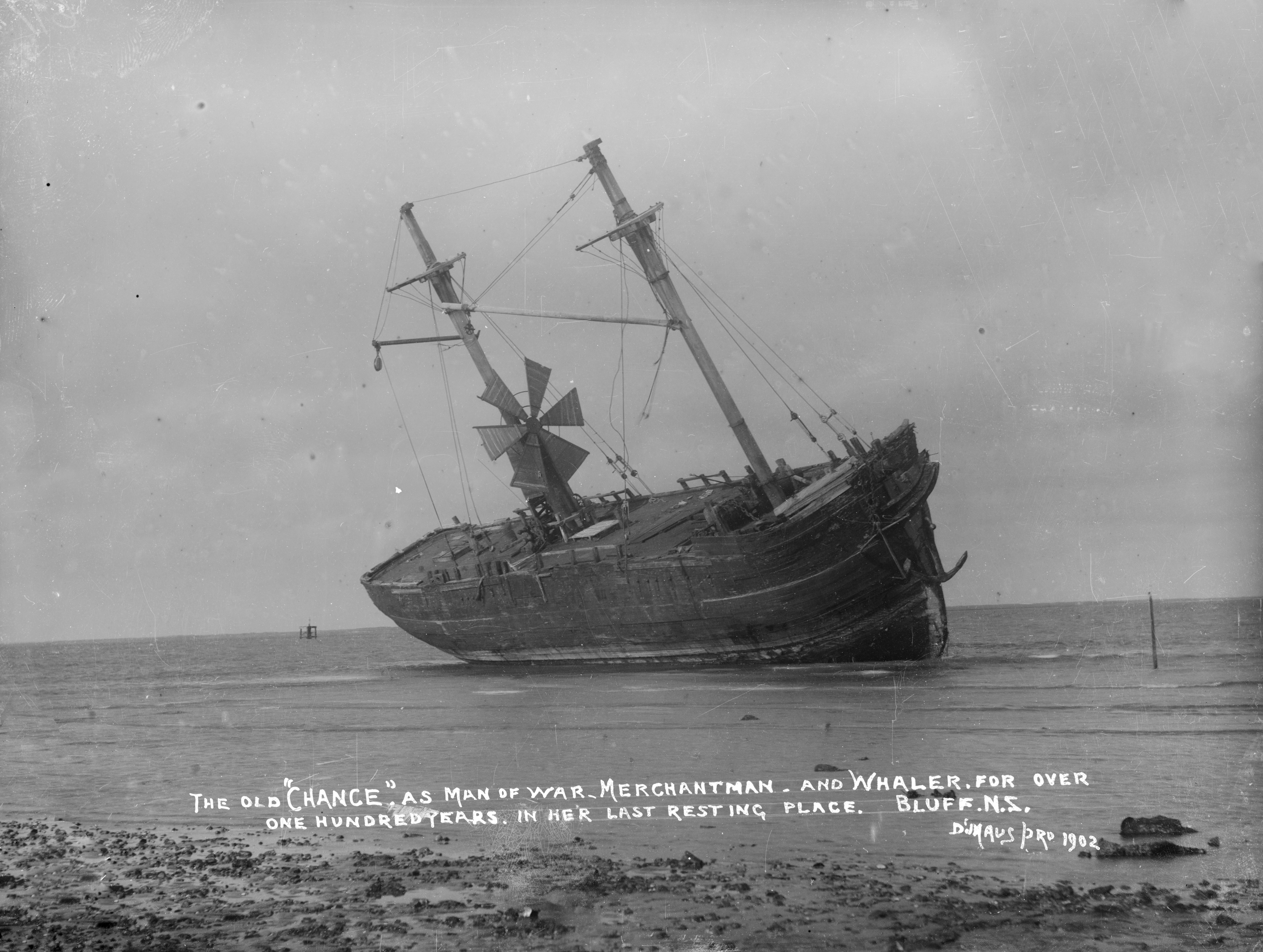 Photographer: David De Maus Sailing ship Chance, aground at Bluff, 1902. The old "Chance", as man of war, merchantman, and whaler for over one hundred years. In her last resting place. Bluff, N.Z. Dry plate glass negative Reference No. 1/1-001999-G De Maus Collection, Alexander Turnbull Library, National Library of New Zealand Find out more about this image from the Alexander Turnbull Library.